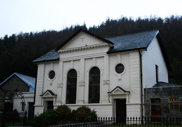 Tabernacl, Tal-y-bont, Ceredigion